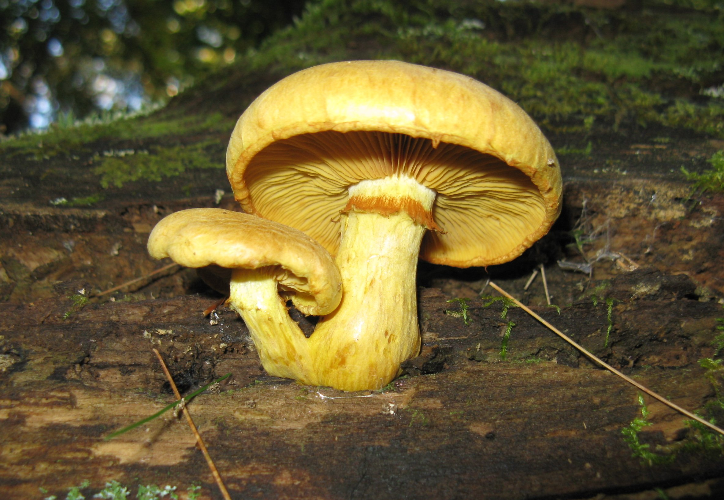 Gymnopilus luteus ((Peck) Hesler) Notes: Gymnopilus luteusnotes: These gyms were growing in three seperate places on a fallen hardwood. One of the groups of three had very slender stalks. So slender that I wasn%u2019t sure if they were even gyms. The other group of three were slightly thicker, and the group of two looked like a the other G. luteus specimen i%u2019ve seen.